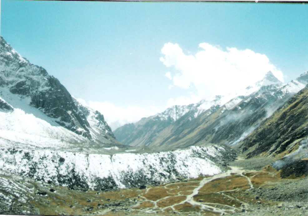 lamjoonga